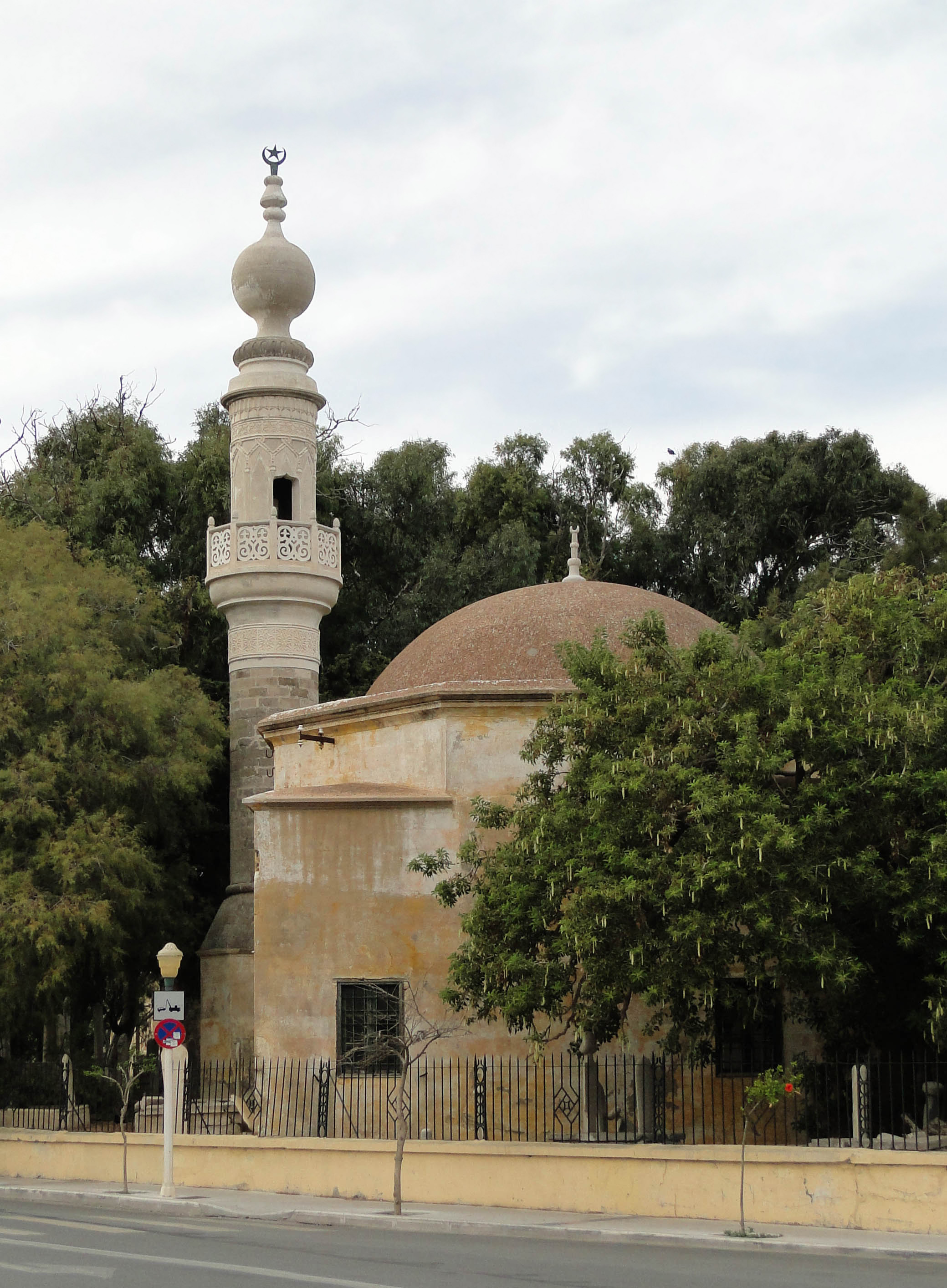 Murat Reis Mosque, city of Rhodes, Greece